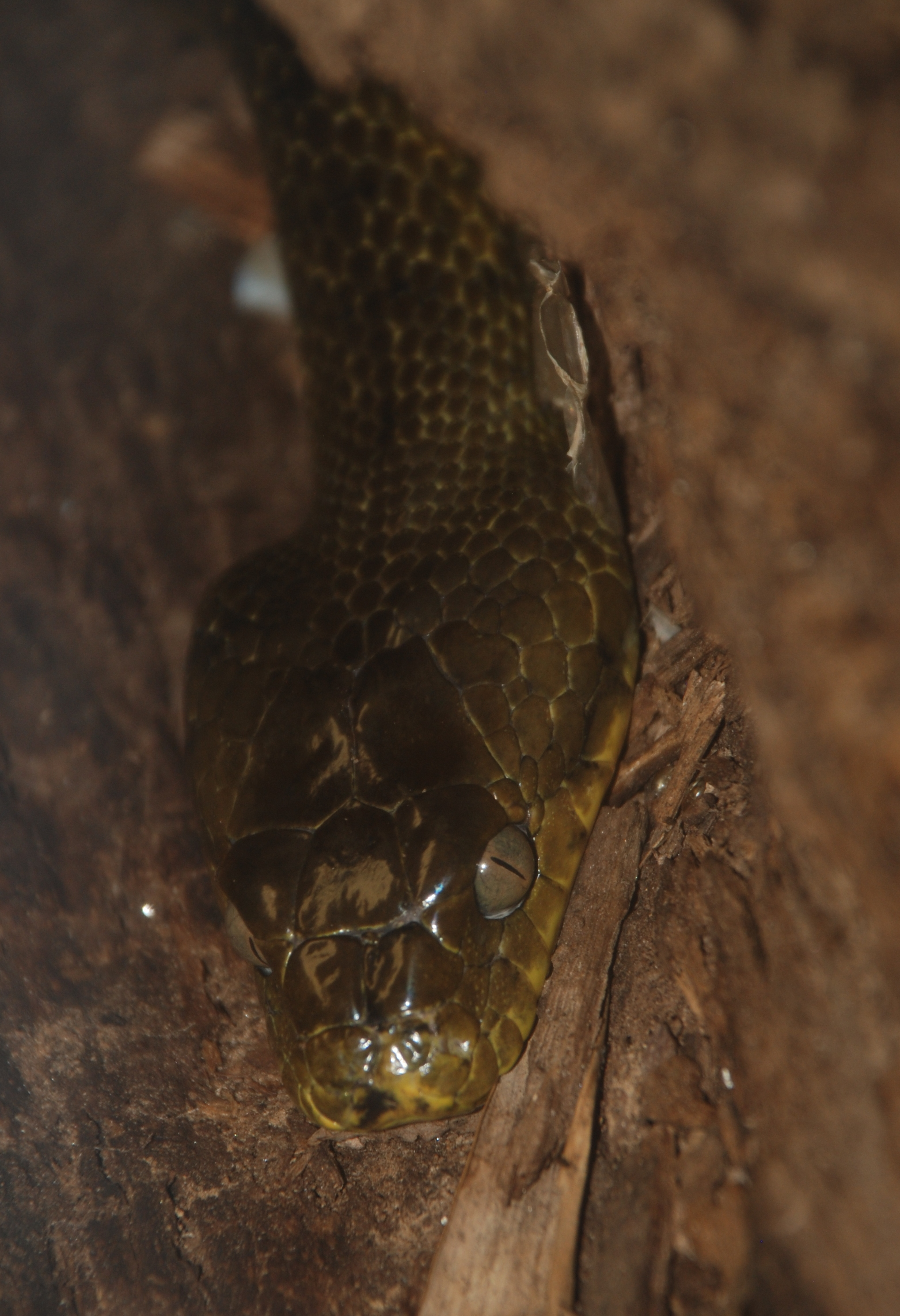 Reptiles in Smithsonian National Zoological Park: Boiga irregularis Brown tree snake